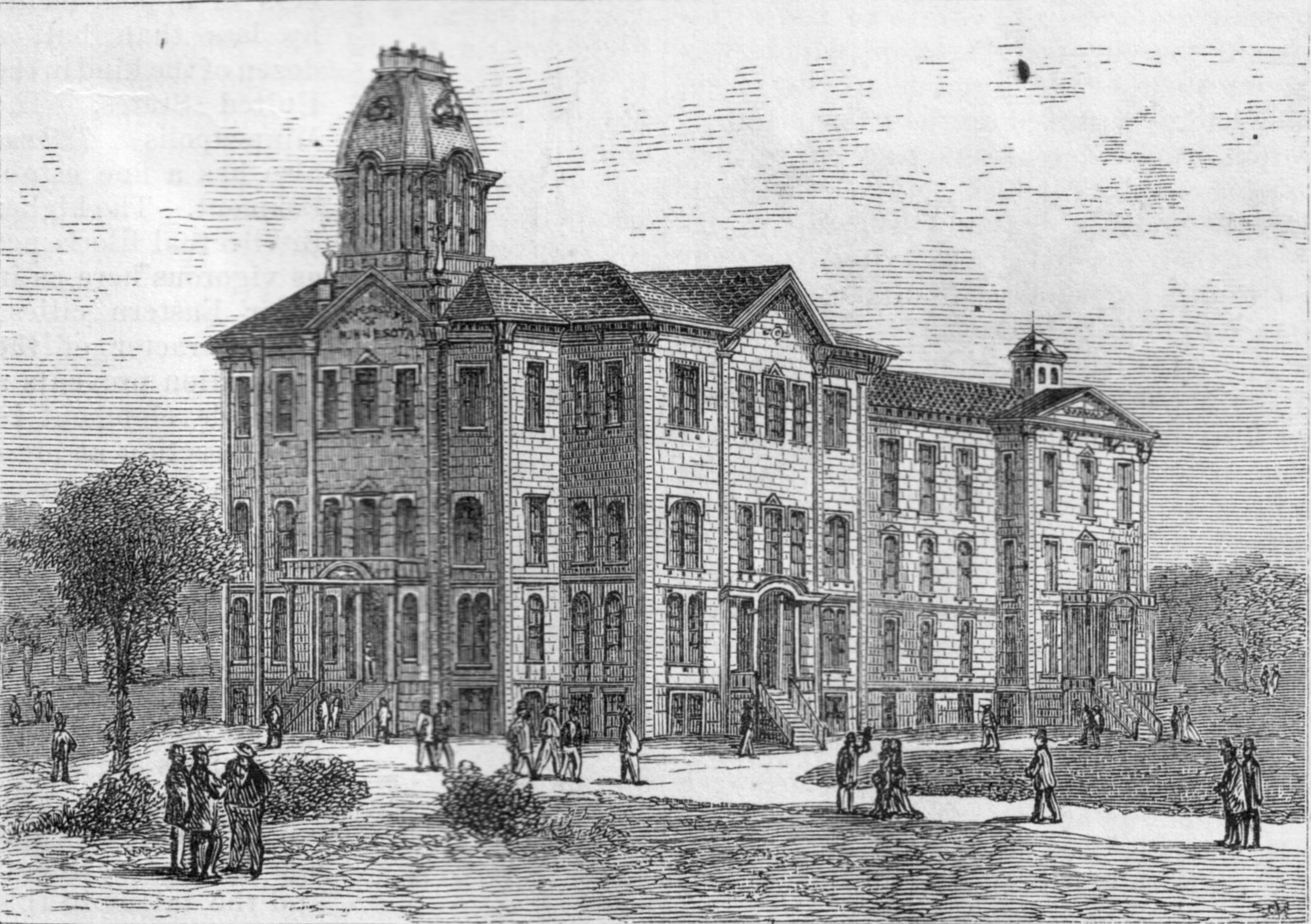 Engraving of the University of Minnesota building.